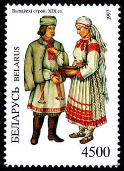 Bychaŭski Stroj stamp